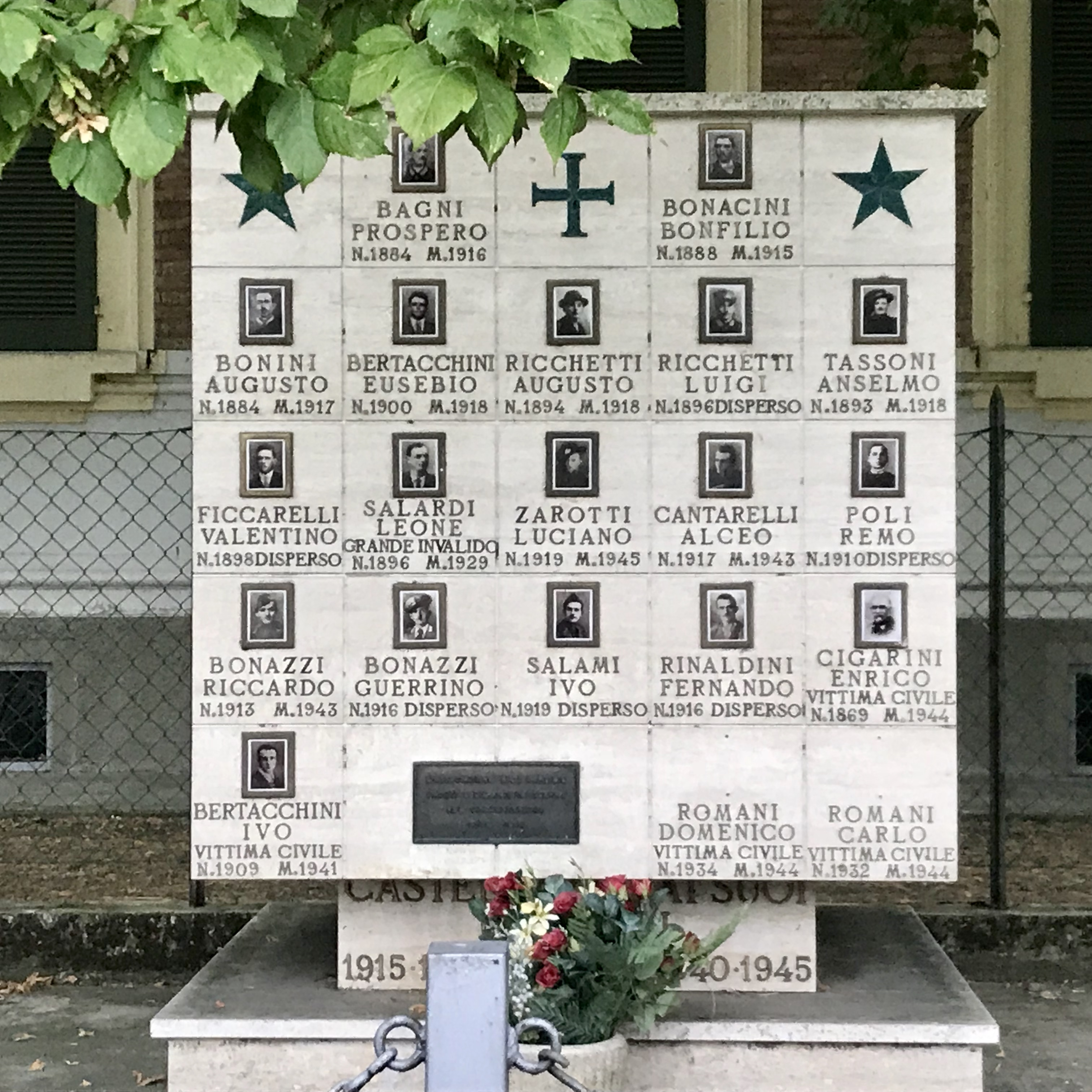 Castellazzo Ww1 and Ww2 Memorial